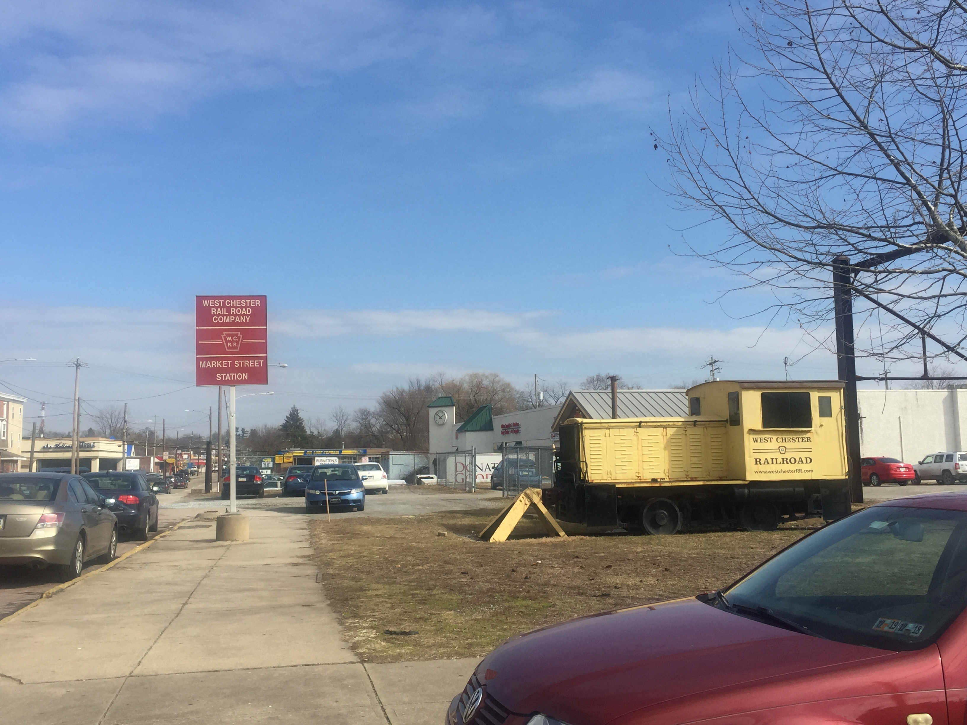 West Chester station signage